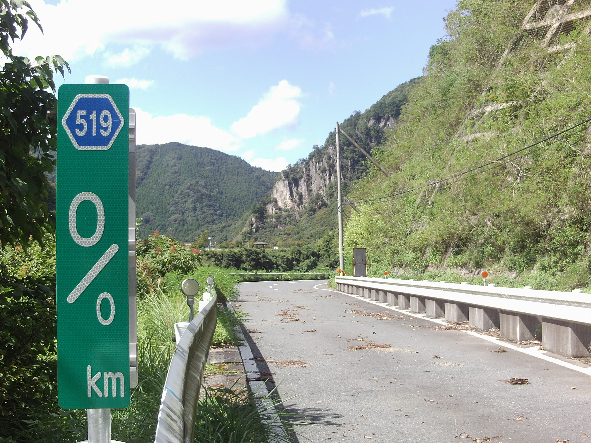 Aichi prefectural road No.519 in Nanasatoisshiki, Shinshiro, Aichi.